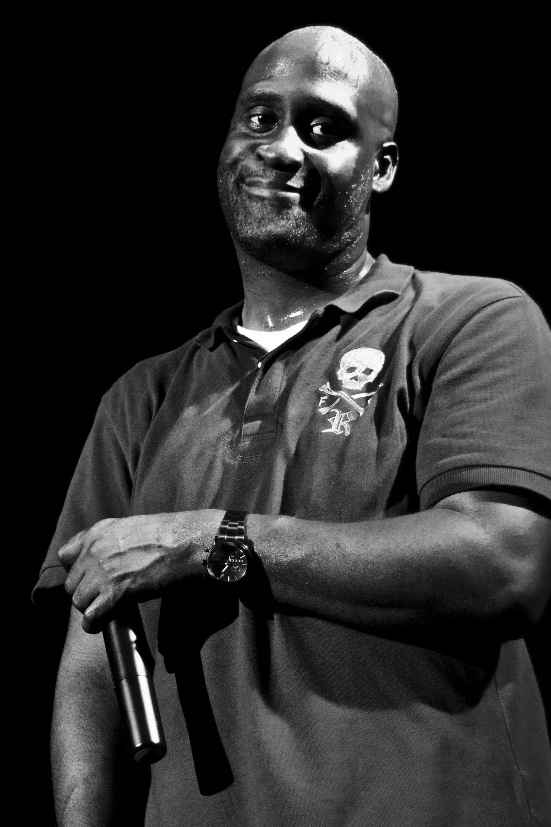 Pos performing at the Fillmore in San Francisco, July 2009